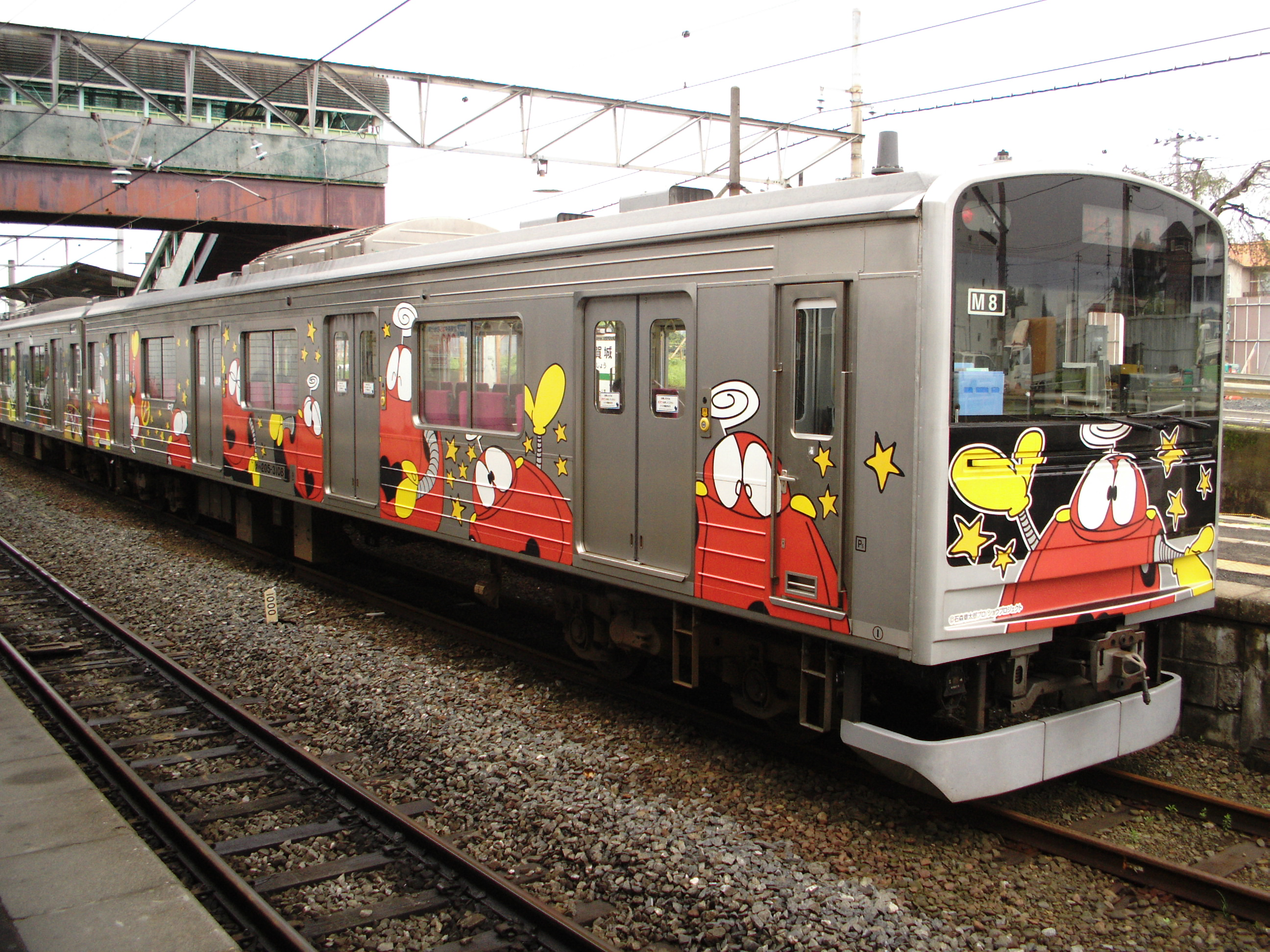 JR East 205-3100 series EMU set M8 decorated as the "Mangattan Liner" train at Tagajo Station on the Senseki Line